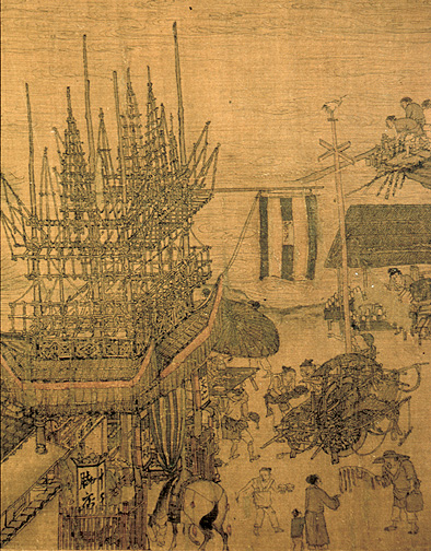 Close-up detail of the Chinese cityscape handscroll Along the River During Qingming Festival, ink and colors on silk, 25.5 × 525 cm.